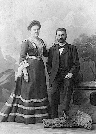 Yakov Samoilovich Edelstein with his wife Vera Alexandrovna Sementovskaya-Kurillo.